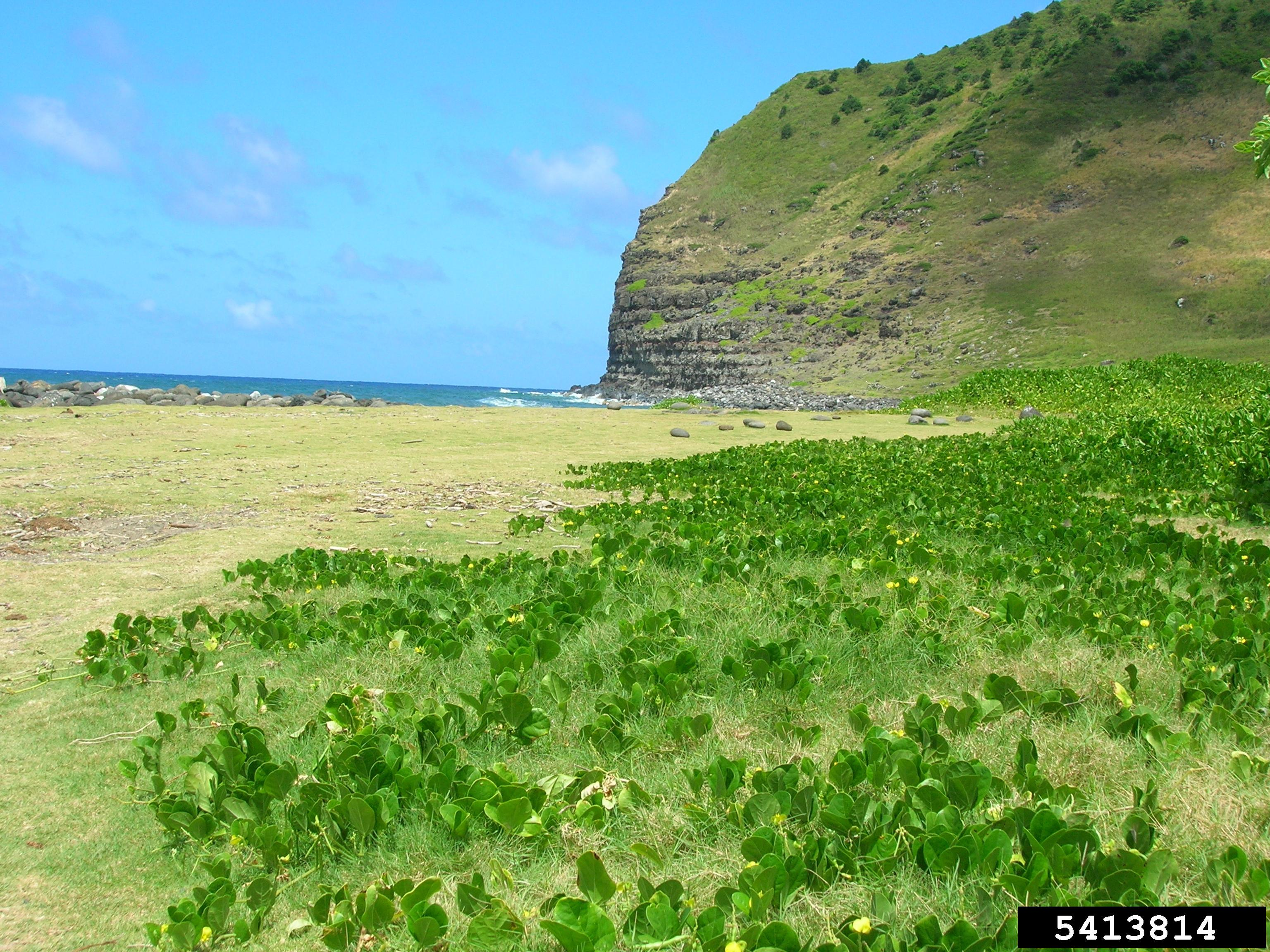 Vigna marina Description: Habit Image location: Halawa Bay, Molokai, Hawaii, United States